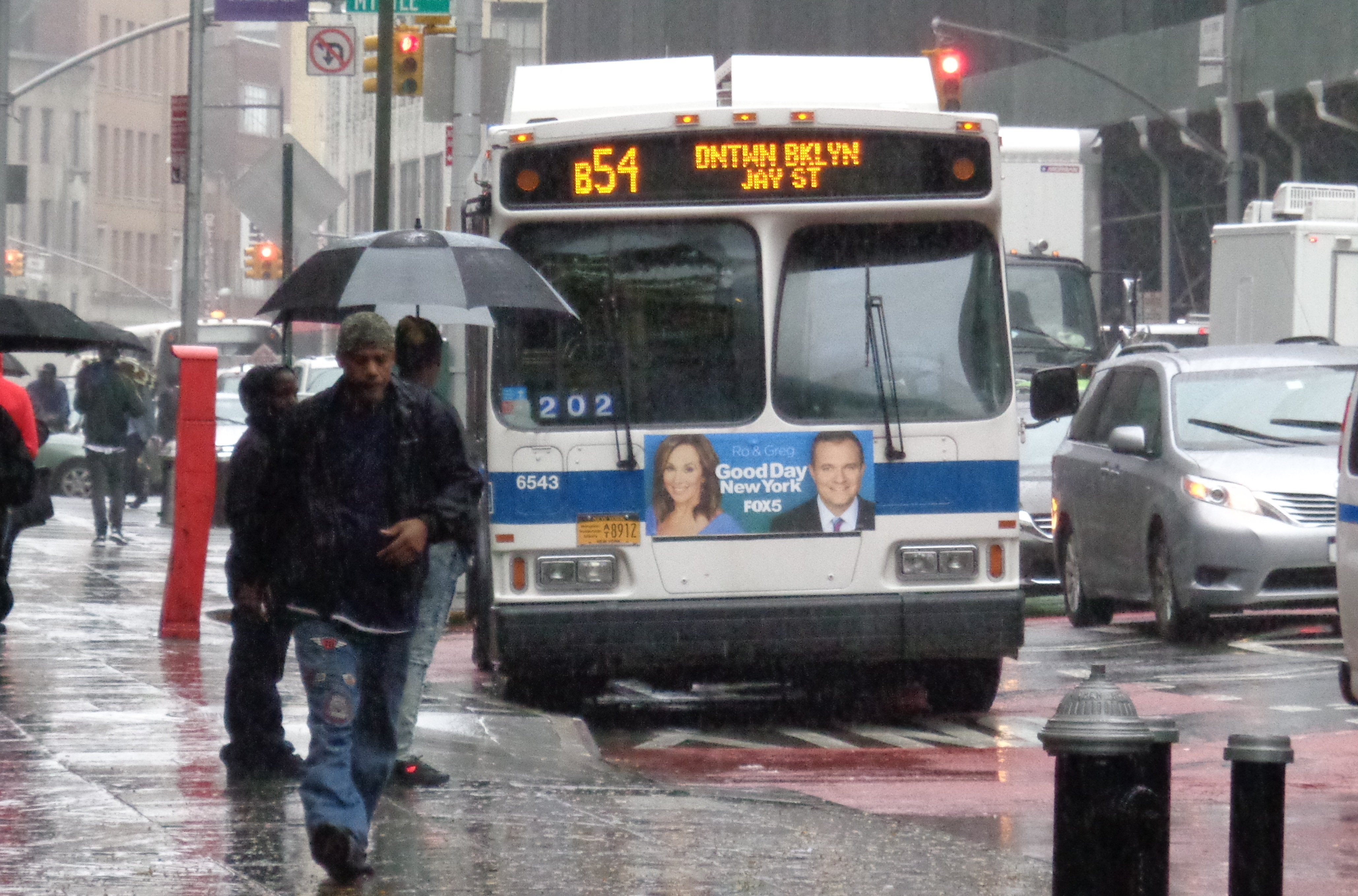 A Downtown Brooklyn-bound B54 bus terminating at Jay Street north of Wiloughby Street in Downtown Brooklyn. Looking south from the nearby campus of New York University Tandon School of Engineering (NYU Polytechnic).